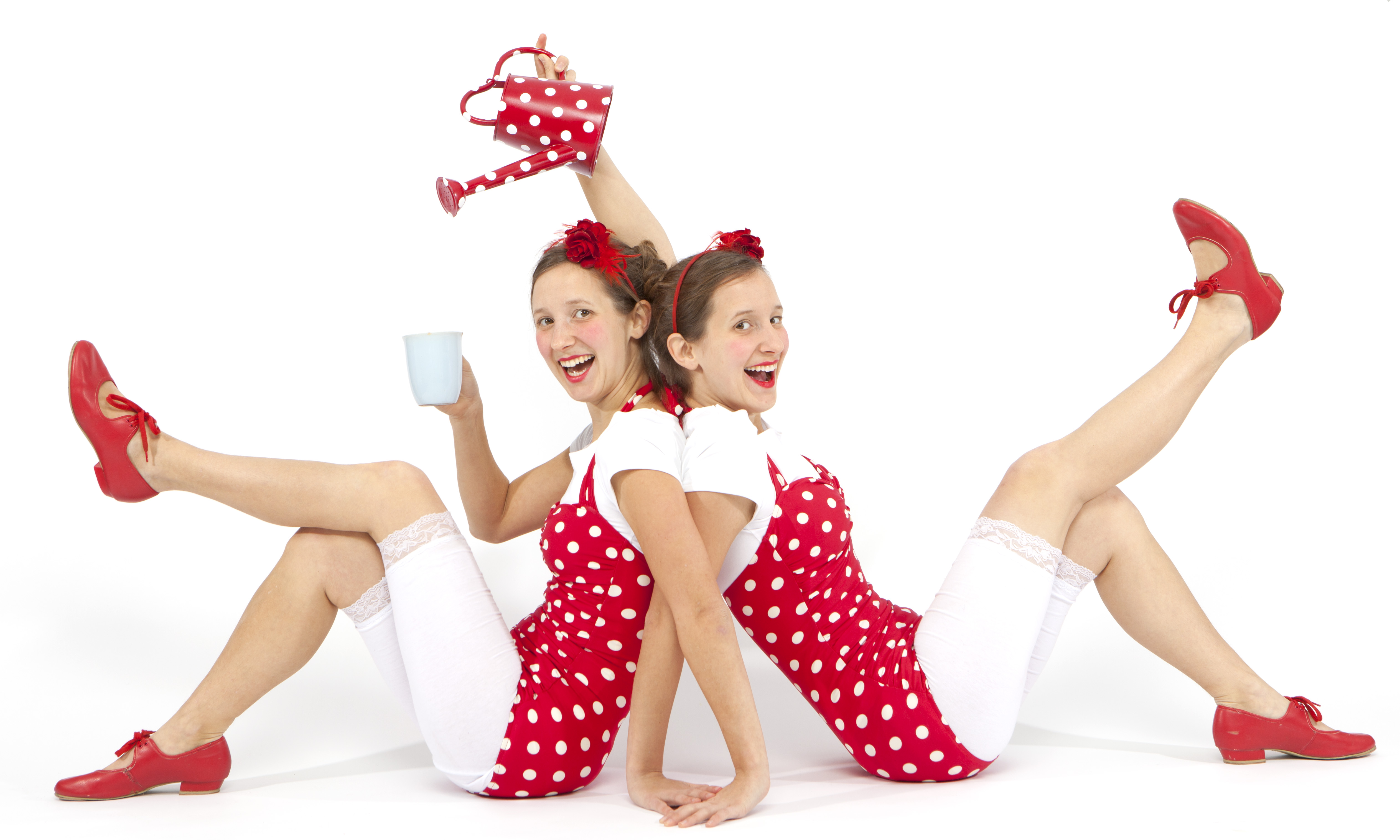 Emplume, street thatre artists